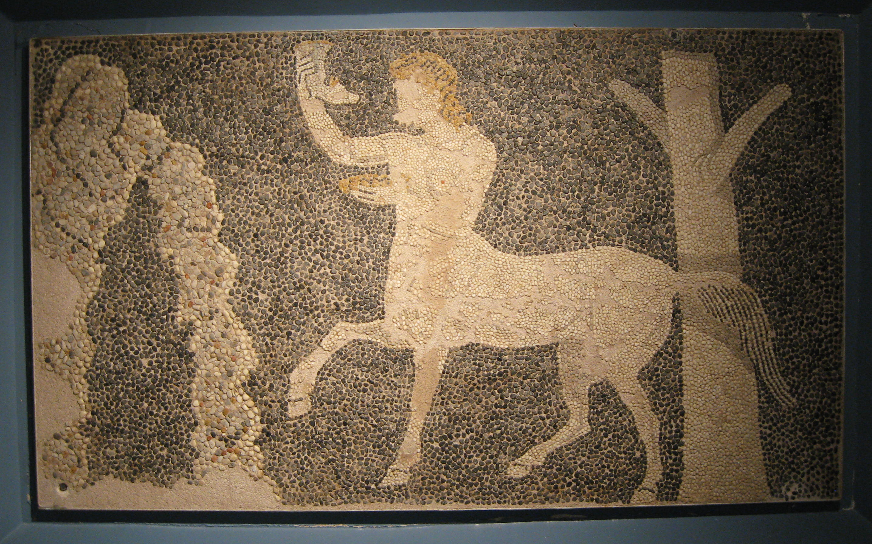 Mosaic in the Archaeological Museum of Pella